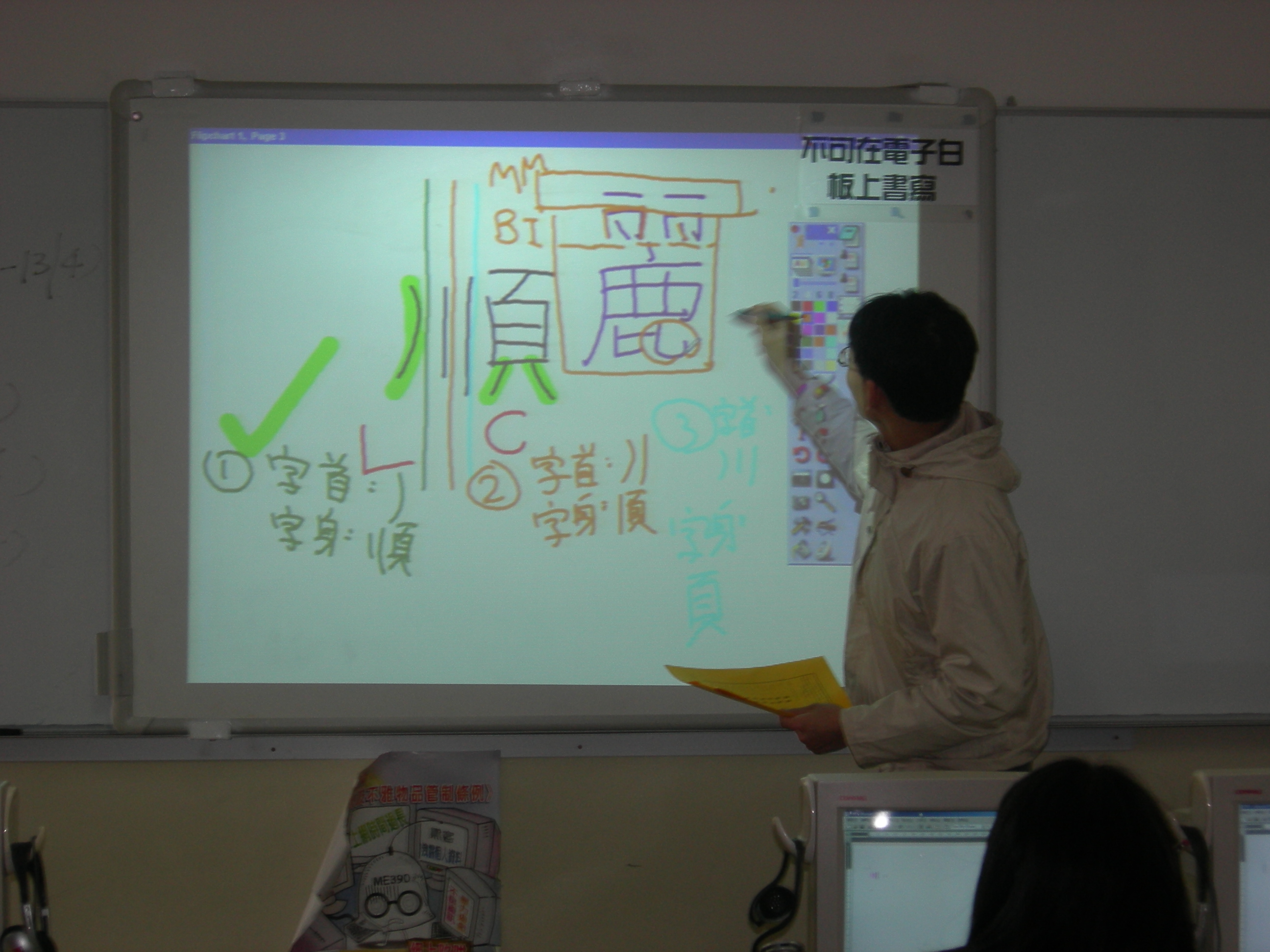 Tomchiukc was teaching in a lesson using an Interactive whiteboard / Tomchiukc在課堂中使用互動電子白板。